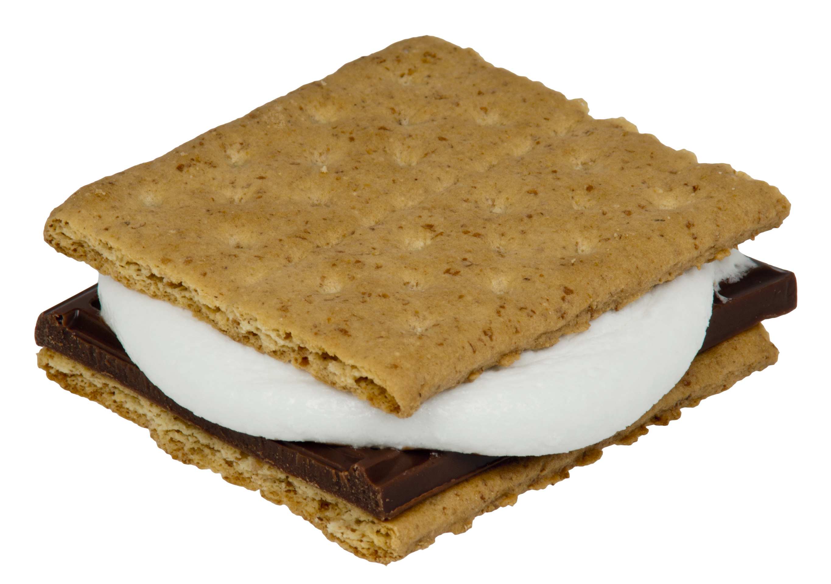 A S'mores made with a half a Hershey's chocolate bar, Nabisco graham crackers and a marshmallow that has been melted in the microwave.